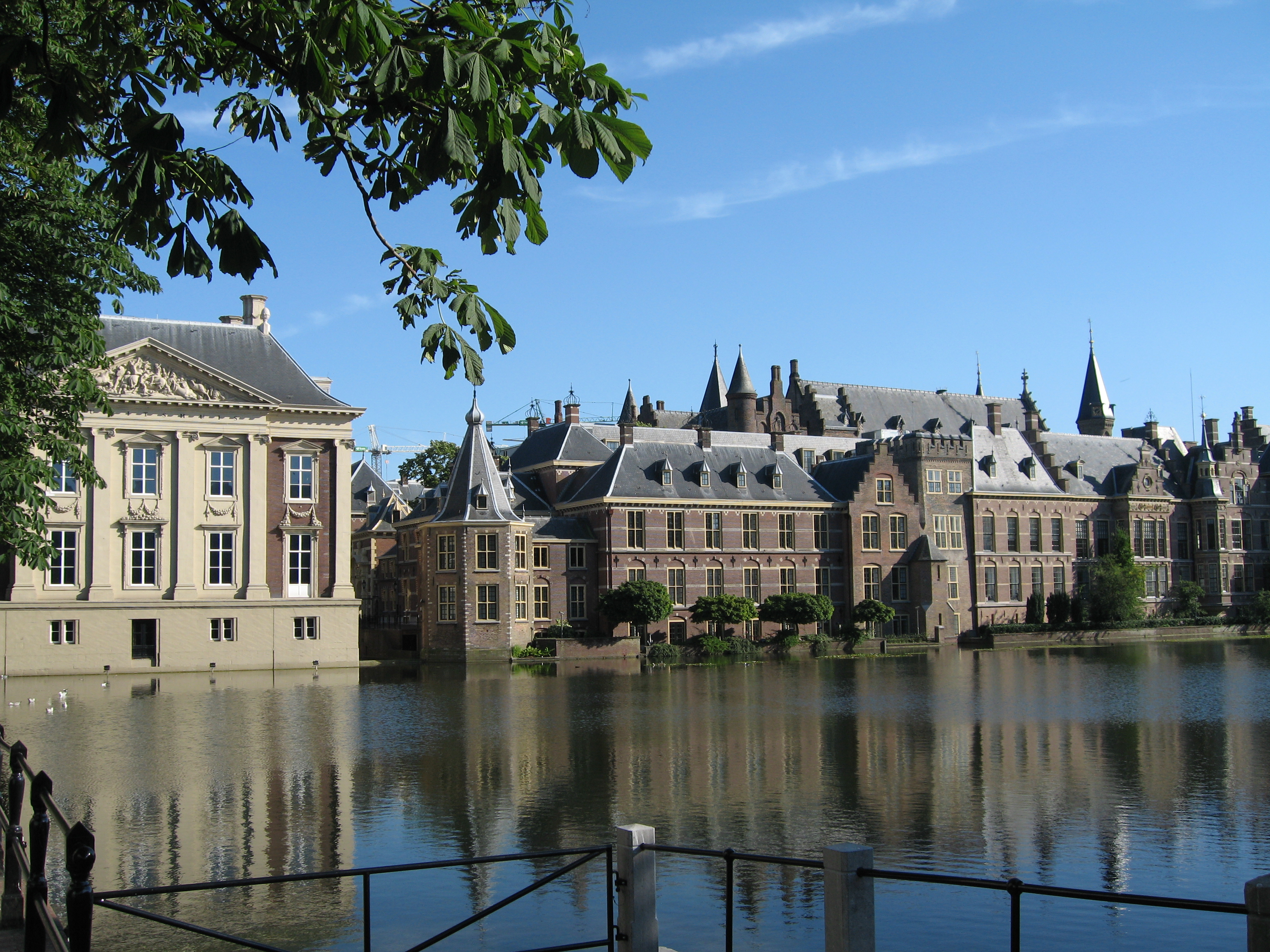 Hofvijfer in The Hahue